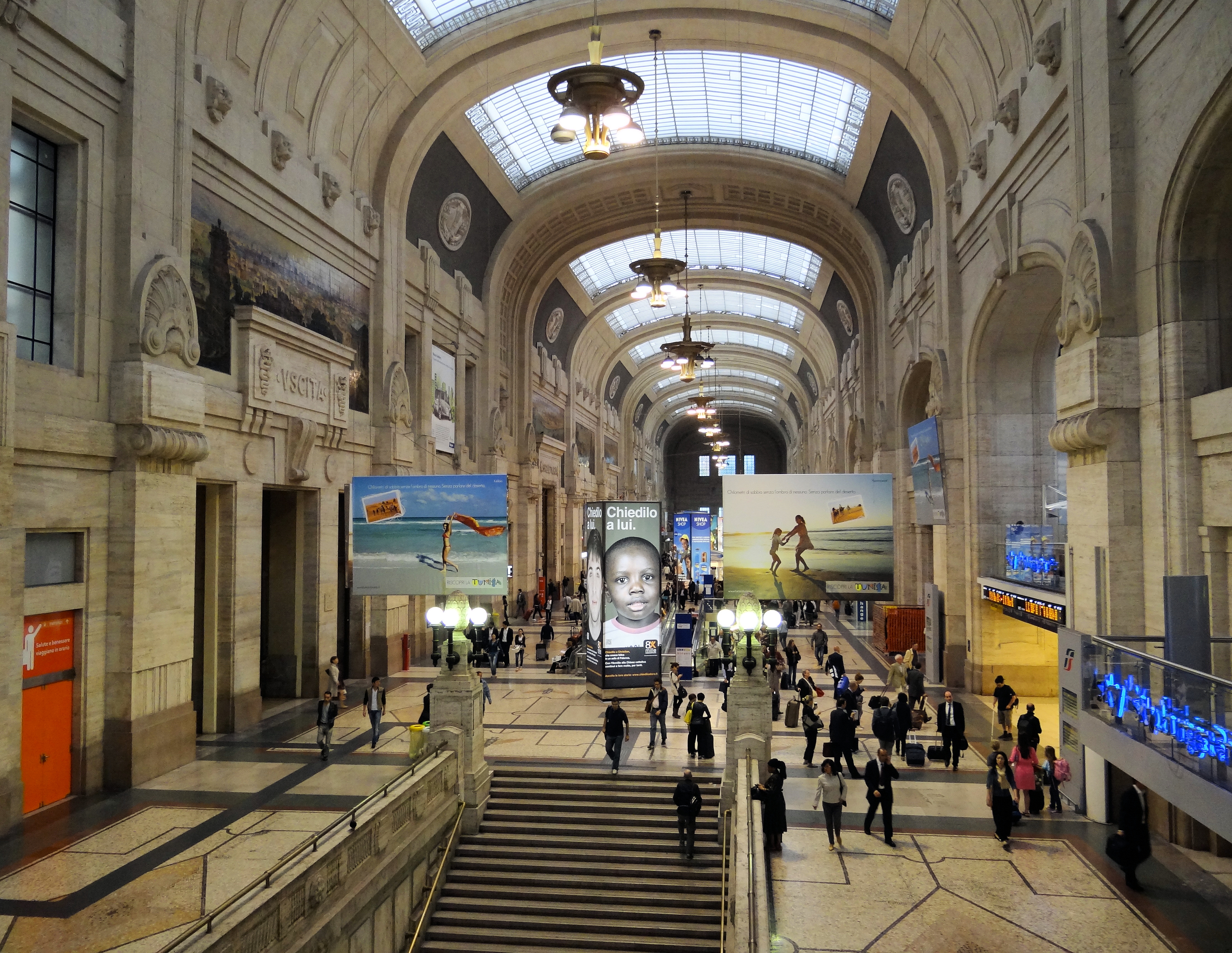 The hall that greets arriving passengers to Milano Centrale as they leave the train platforms area.